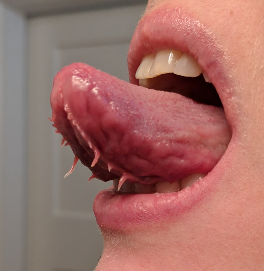 In order to represent the fringed variety of fimbriated folds.